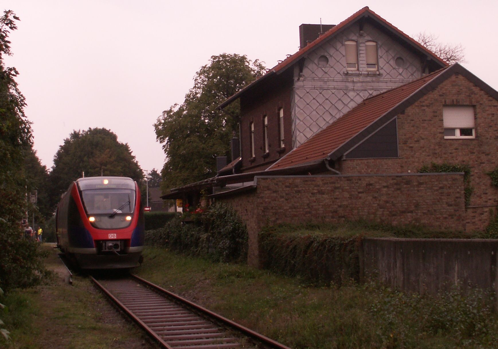 Bombardier Talent class 643.2 from the Euregiobahn at a special trip on the railway line from Stolberg to Eupen at the station of Breinig.